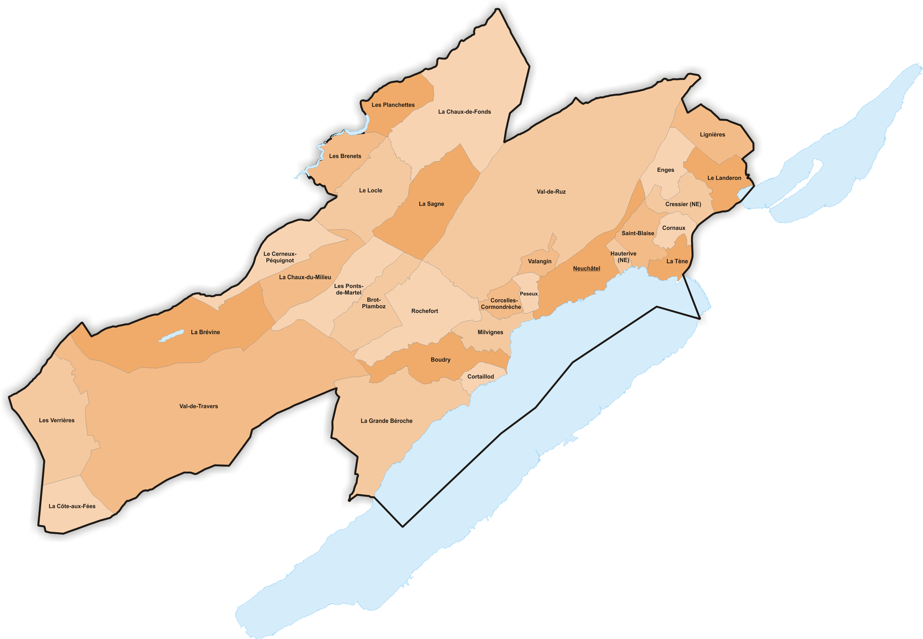 Municipalities in Canton Neuenburg